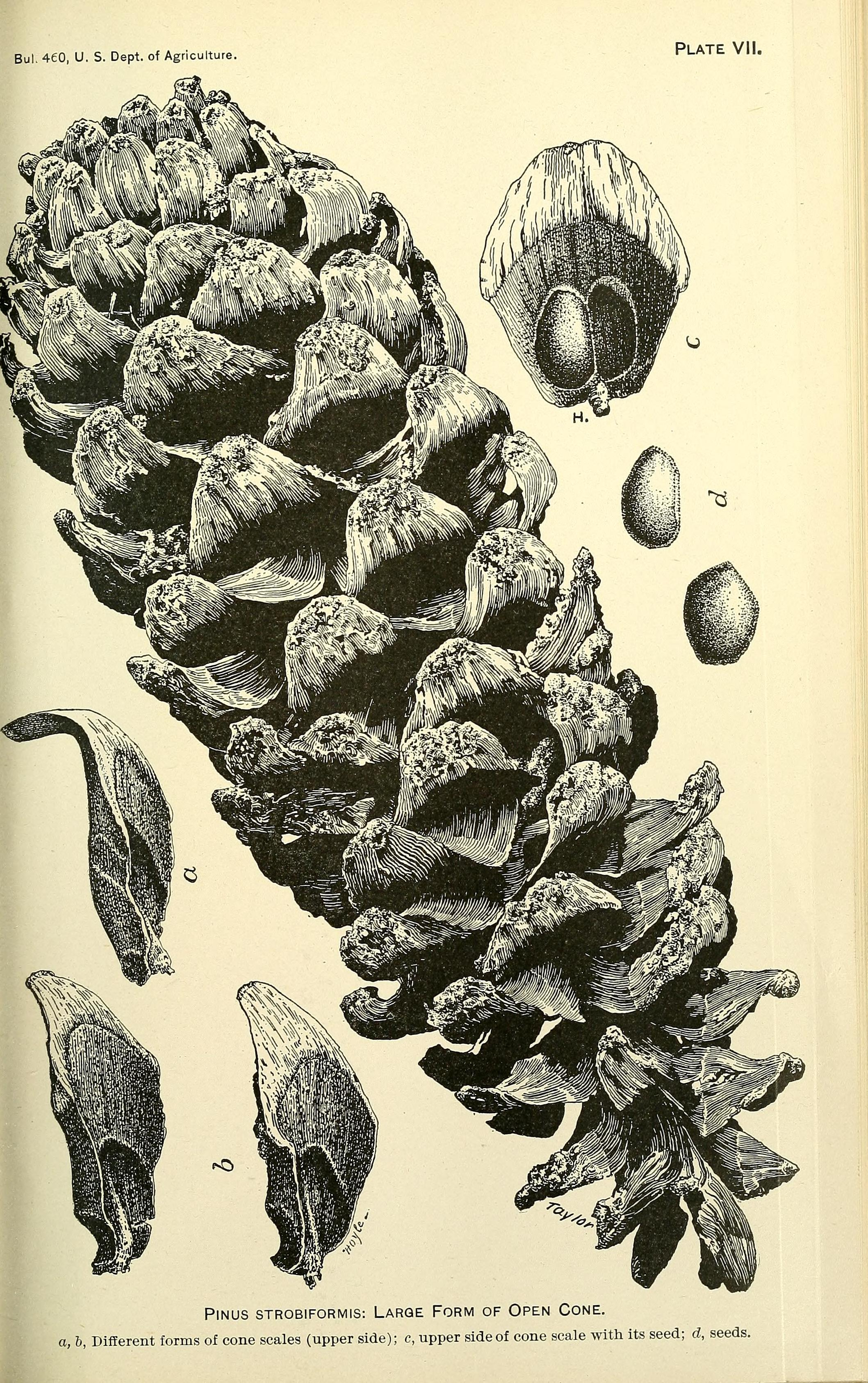 Cone and seeds of Pinus reflexa (Engelm.) Engelm. [as Pinus strobiformis sensu Sudw., non Engelm.] Title: Bulletin of the U.S. Department of Agriculture Year: 1913-1923. (1910s) Authors: United States. Dept. of Agriculture Subjects: Agriculture; Agriculture Publisher: (Washington, D. C. ?) : The Dept. : Supt. of Docs. , G. P. O. Text Appearing Before Image: Bui. 460, U. S. Dept. of Agriculture. Plate VII. Text Appearing After Image: PlNUS STROBIFORMIS: LARGE FORM OF OPEN CONE. a, b, Different forms of cone scales (upper side); c, upper side of cone scale with its seed; d, seeds.